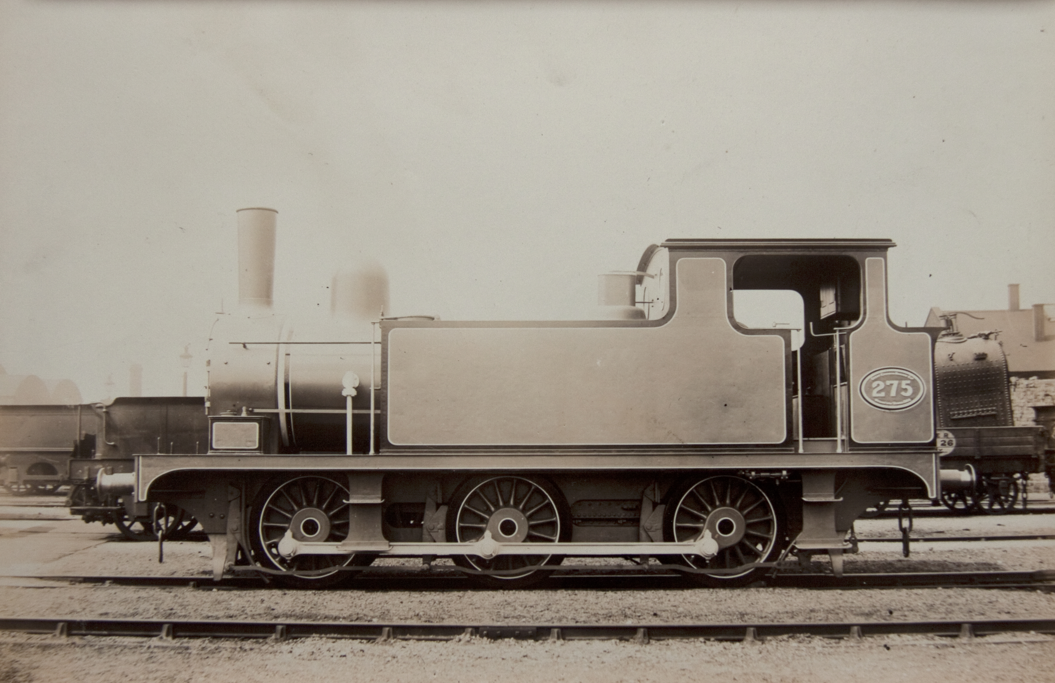 The T18 class 0-6-0 tank engines were built from 1886-1888. The T18s were a simple design with 16 x 24-in. cylinders and 4-ft. 0-ins. diameter driving wheels. The boilers were derived from that used on Adams' K9 class 0-4-2Ts. After grouping they became LNER Class J-66 This photo was taken from an old original photo we came across while helping to clear the house of a deceased friend. I have uploaded it to Flickr in the hope that it might be interesting to steam enthusiasts.